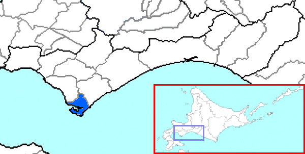 The location of Muroran in Iburi Subprefecture, Hokkaido Prefecture, Japan.